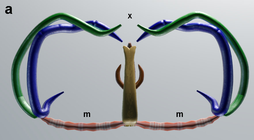 Attachment clamps of Omanicotyle heterospina (Monogenea, Microcotylidae) - Median View. The clamp is in an upright position, the sclerites on the edge marked “x” open and attach to the secondary lamellae of the host’s gills. Large muscles (m) linking the sclerites, whilst others (not shown) run throughout the tegument that encases the entire clamp apparatus. Cropped from file File:Attachment clamps of Omanicotyle heterospina - 1756-3305-6-170-5.tiff